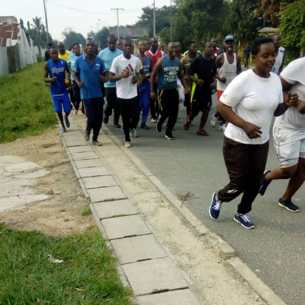 This is an image with the theme "Play" from: Burundi